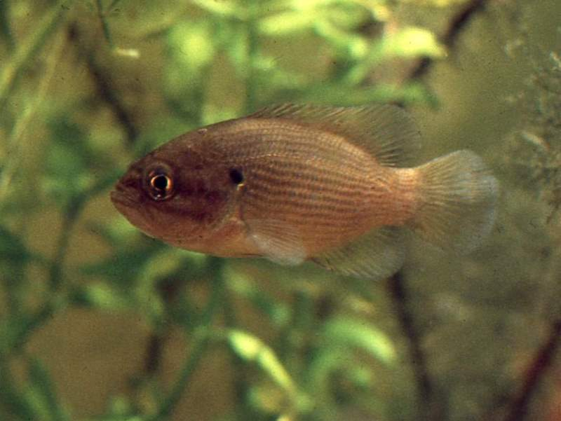 A freshwater Mud sunfish (Acantharchus pomotis) in an aquarium in South Carolina. The fish was wild caught in the midlands of South Carolina, USA, circa. 1976.